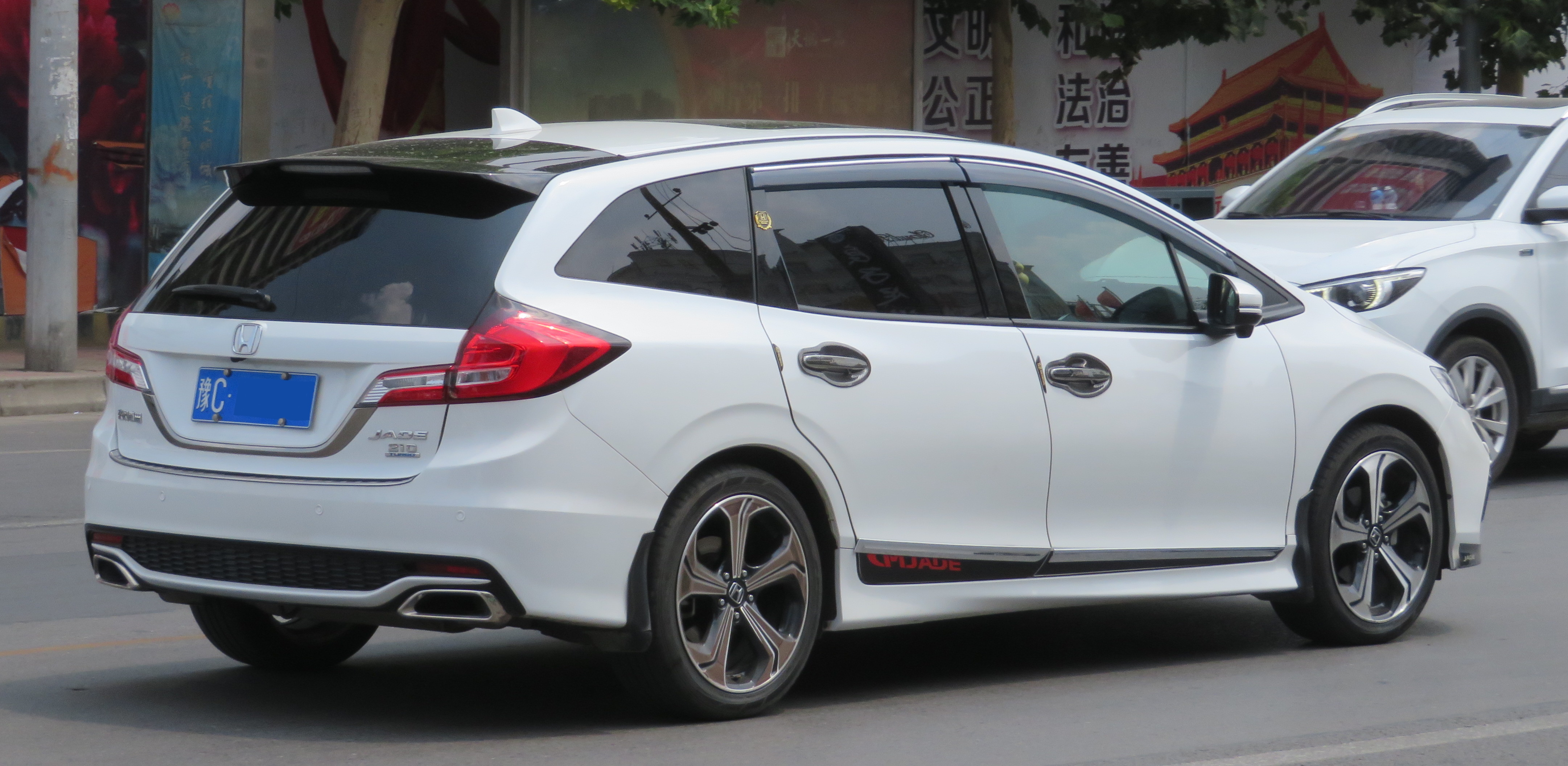 Photographed in Luoyang, Henan province, China